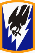 66th Aviation Brigade shoulder sleeve insignia